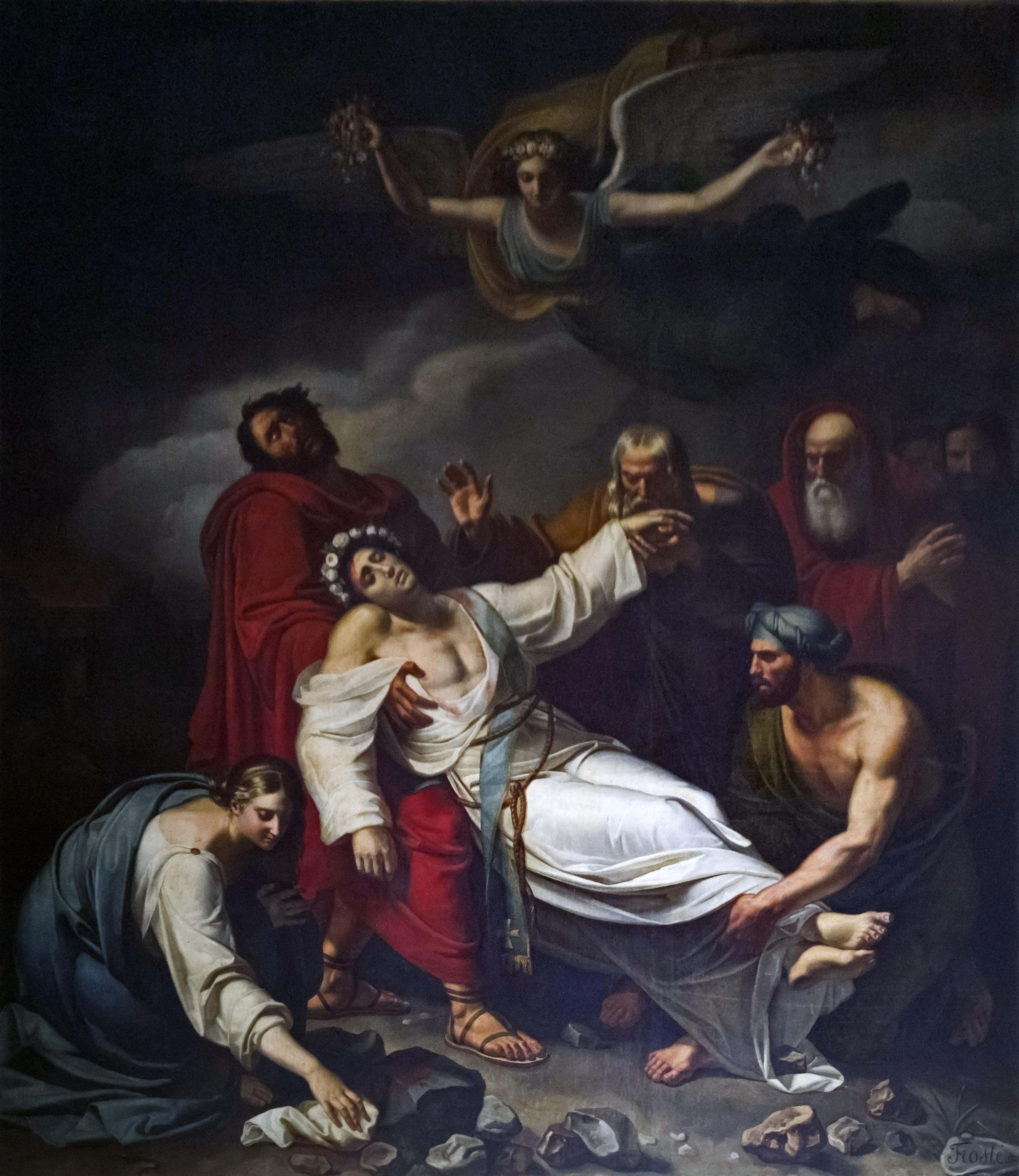 Saint Stephen dead is surrounded by lamenting characters, a woman wipes the blood on a stone stoning.